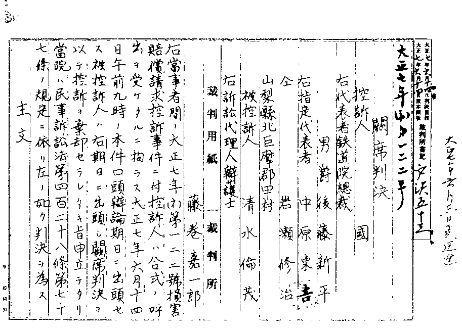 Default judgment judgment document The damage lawsuit case that Shingen-ko Hatakake-matsu pine tree withering